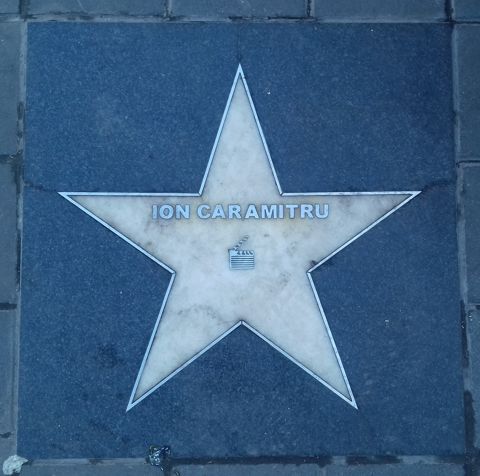 The Star to Ion Caramitru at the Bucharest Walk of Fame, Piata Timpului